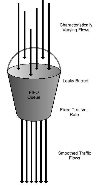 The same image as LeakyBucket.jpg, but cleaned up and slimmed out.